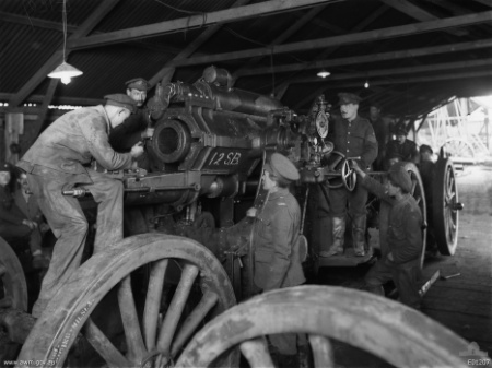 Mounting and overhauling a 9.2 inch British Howitzer gun at the 10th Medium Mobile Workshops at Steenvoorde. Note the 12 SB (12th Siege Battery) written on the side of the gun. Place made: Western Front: Western Front (France), Nord Region (France), Steenvoorde